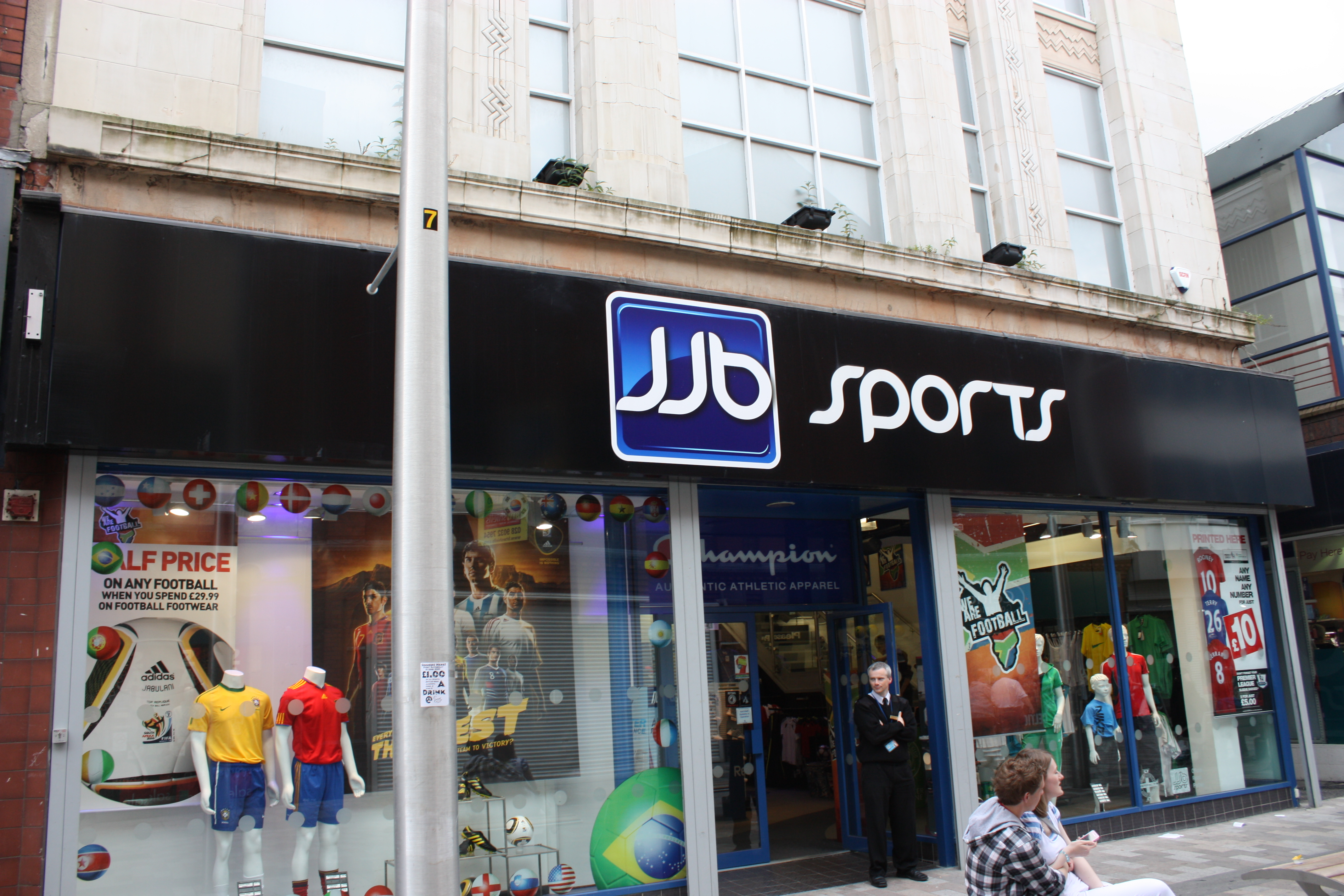 JJB Sports clothing shop, Ann Street, Belfast, Northern Ireland, June 2010